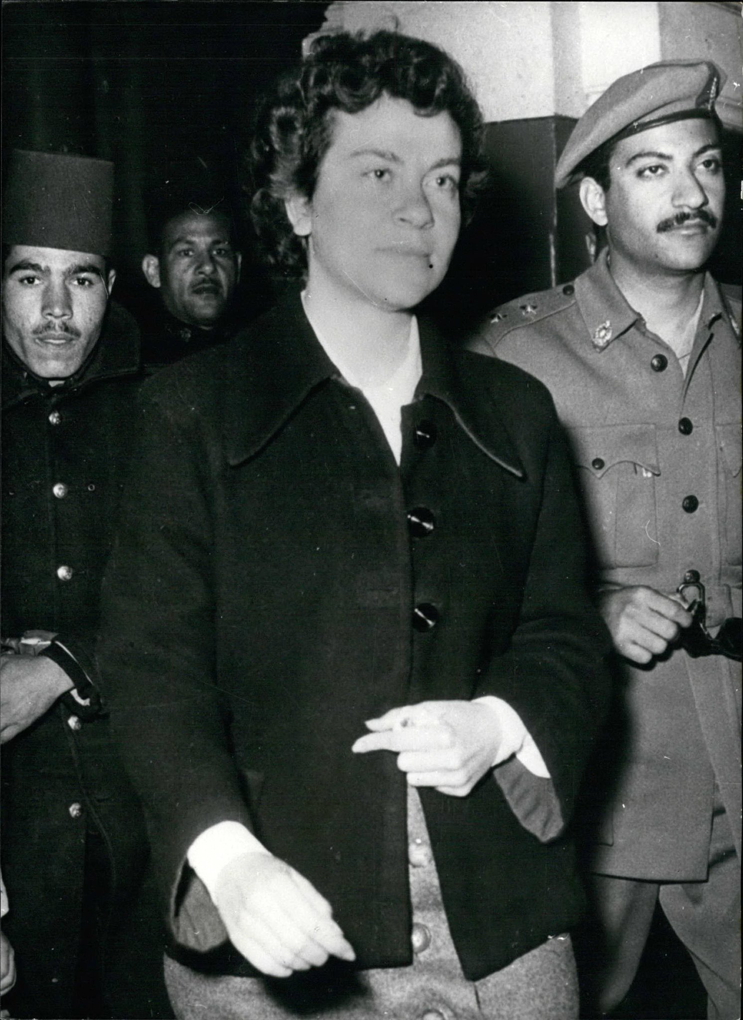 Marcelle Ninio was arrested in 1954